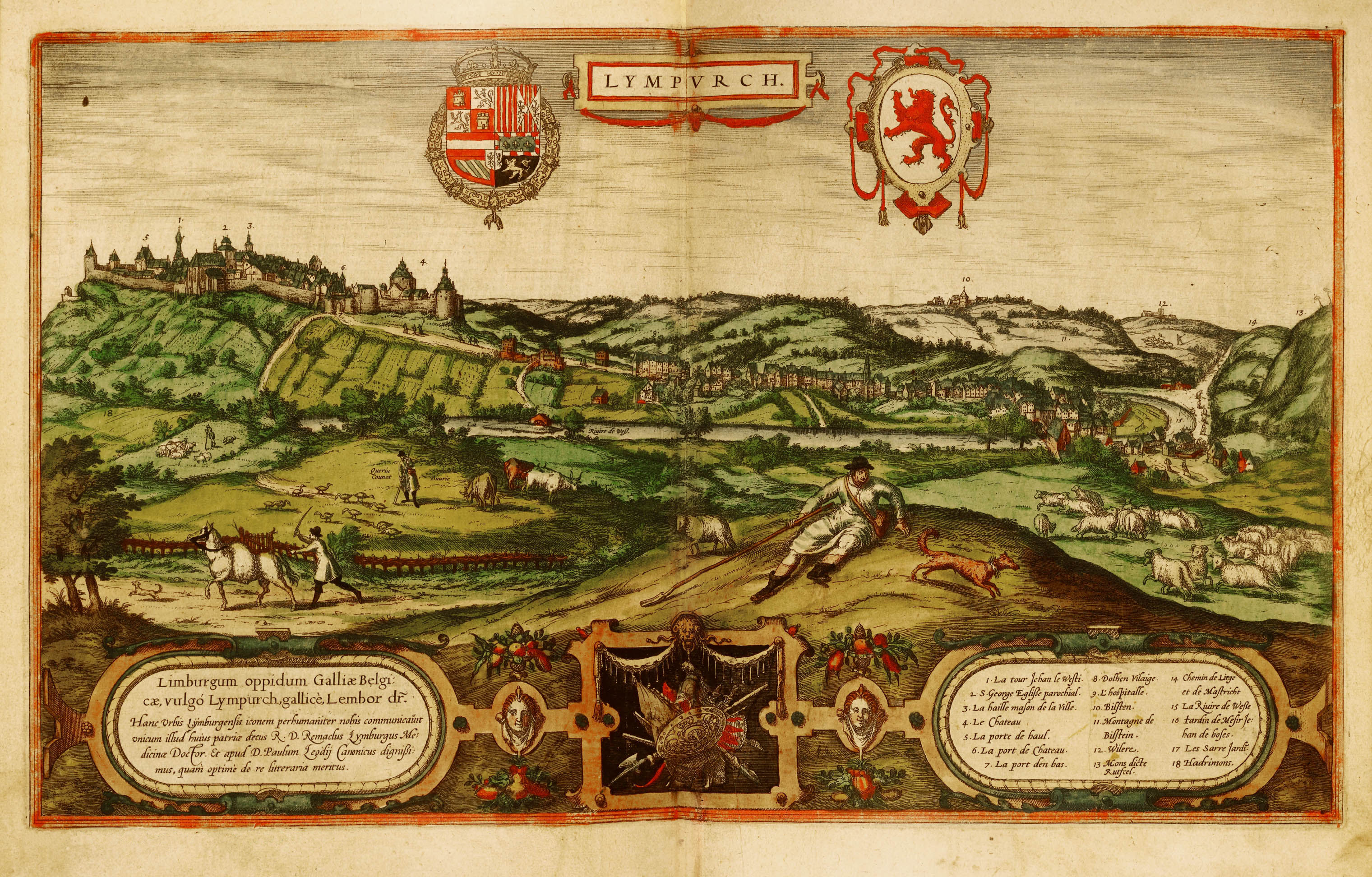 City of Limburg 1575